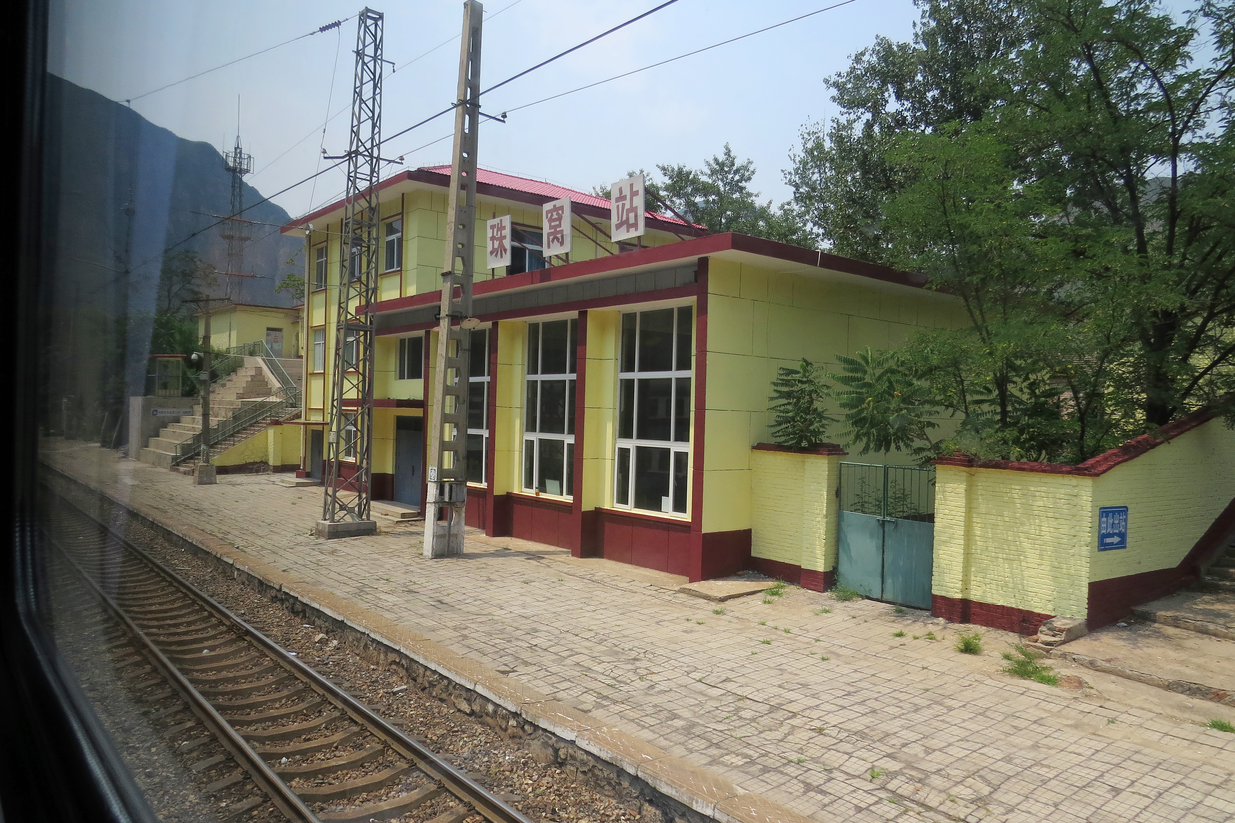 Maybe 4416 is a better choice to record the stations.